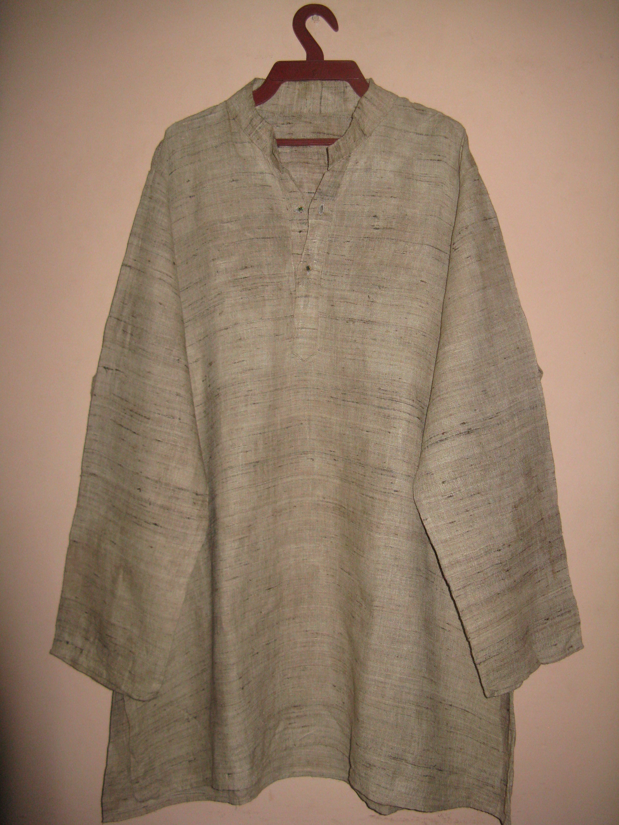 Jubba, a KeralaDress